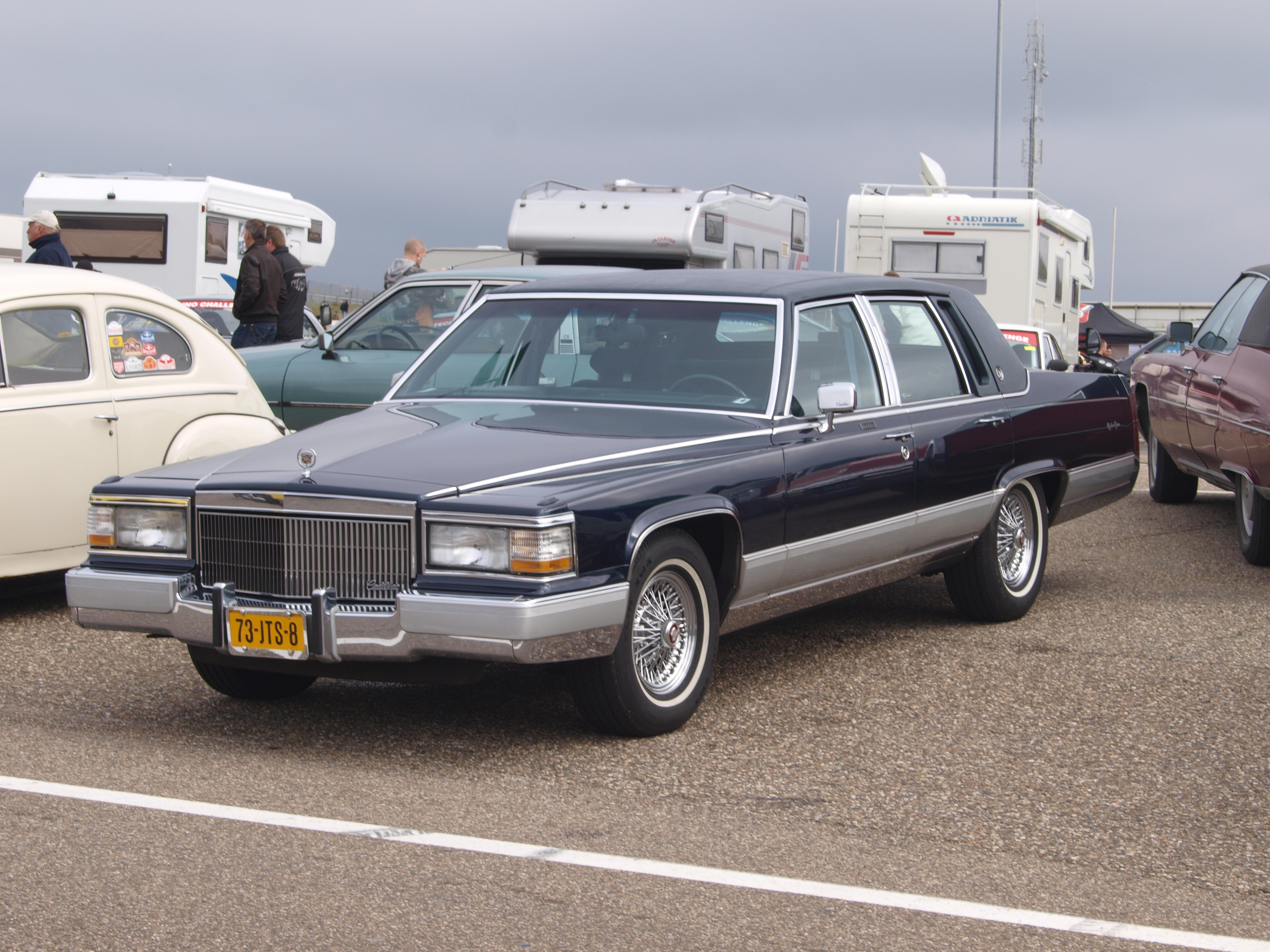 Photographed at the Nationaal Oldtimer Festival Zandvoort 2010, The Netherlands.